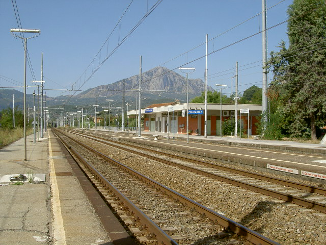 Railway Station of Policastro Bussentino